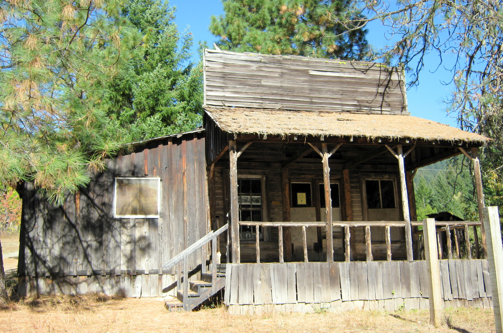 Unknown building (bar/saloon?) in Golden, Oregon.